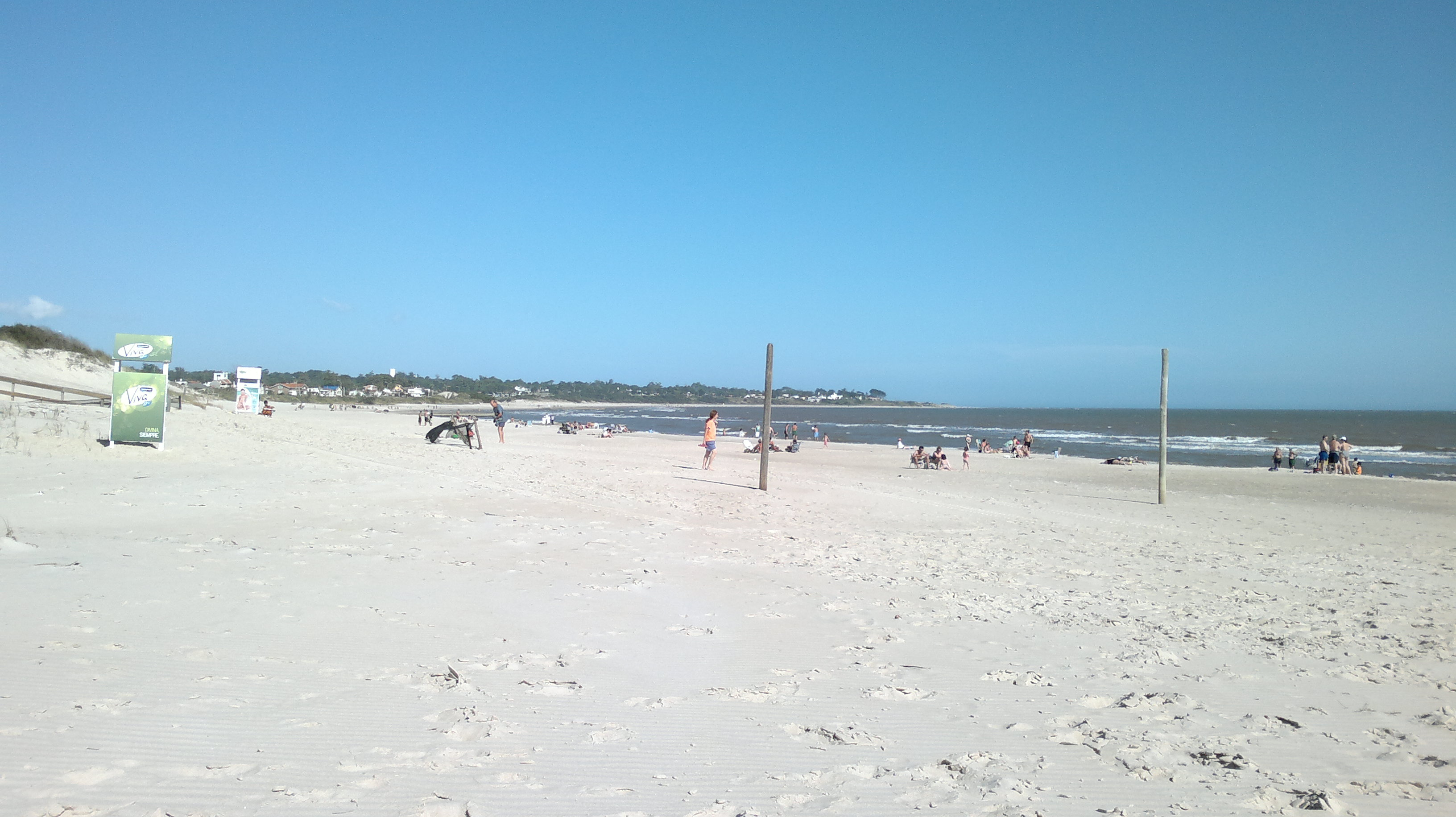 The beach at the Floresta, Uruguay